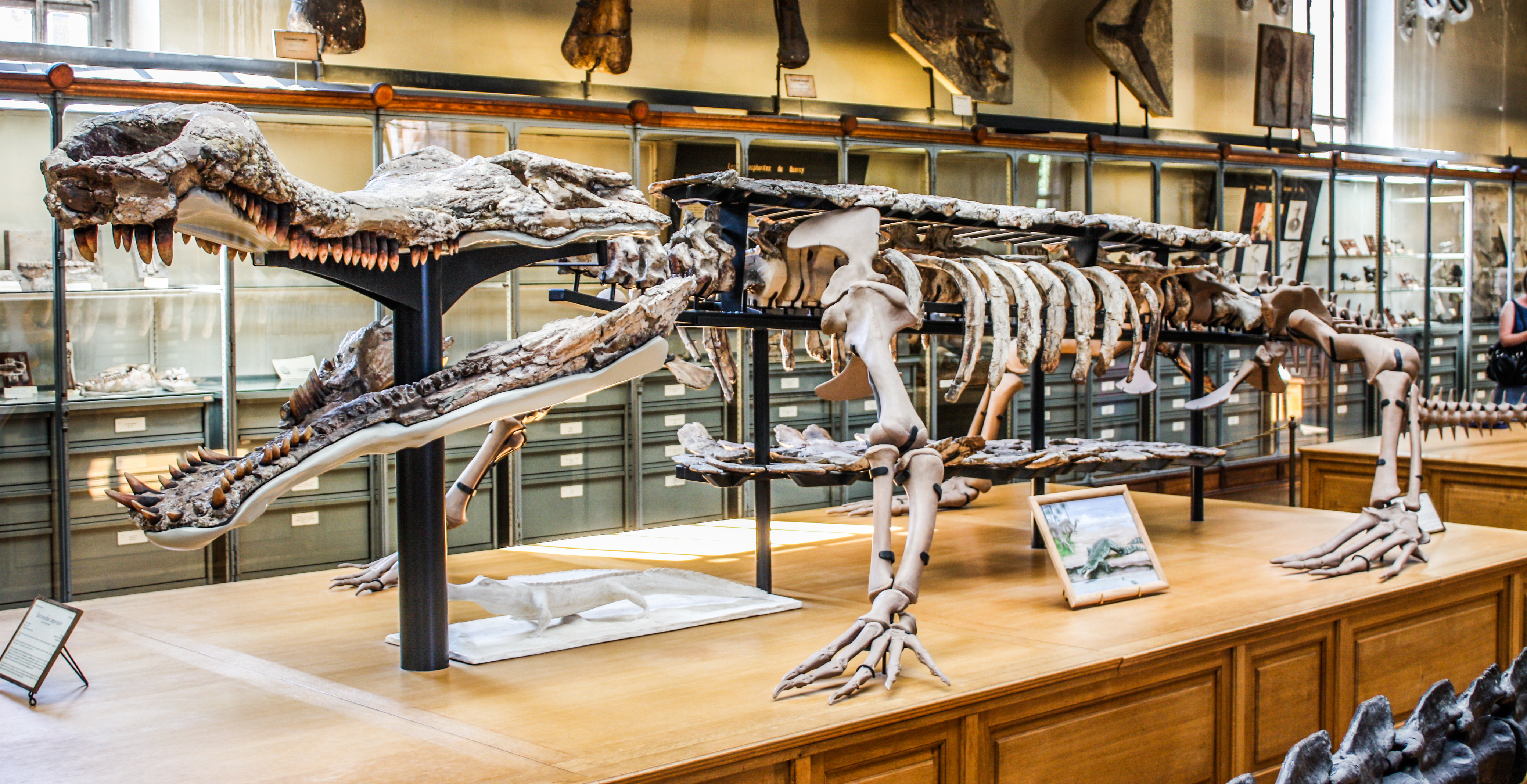 Sarcosuchus in the National Museum of Natural History, Paris